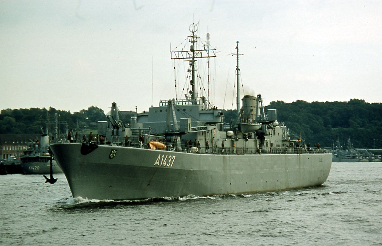 Minetransport/minelayer FGS Sachsenwald (A 1437) is leaving Flensburg-Mürwik naval base in August 1980